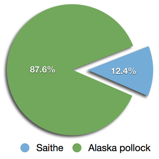 Global capture of all pollock species, 2010, as reported by the FAO. Based on data sourced from the relevant FAO Species Fact Sheets